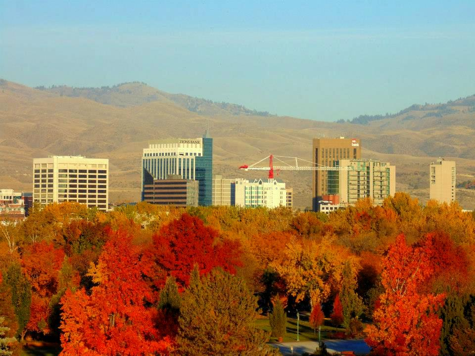 Downtown Boise in Fall 2013